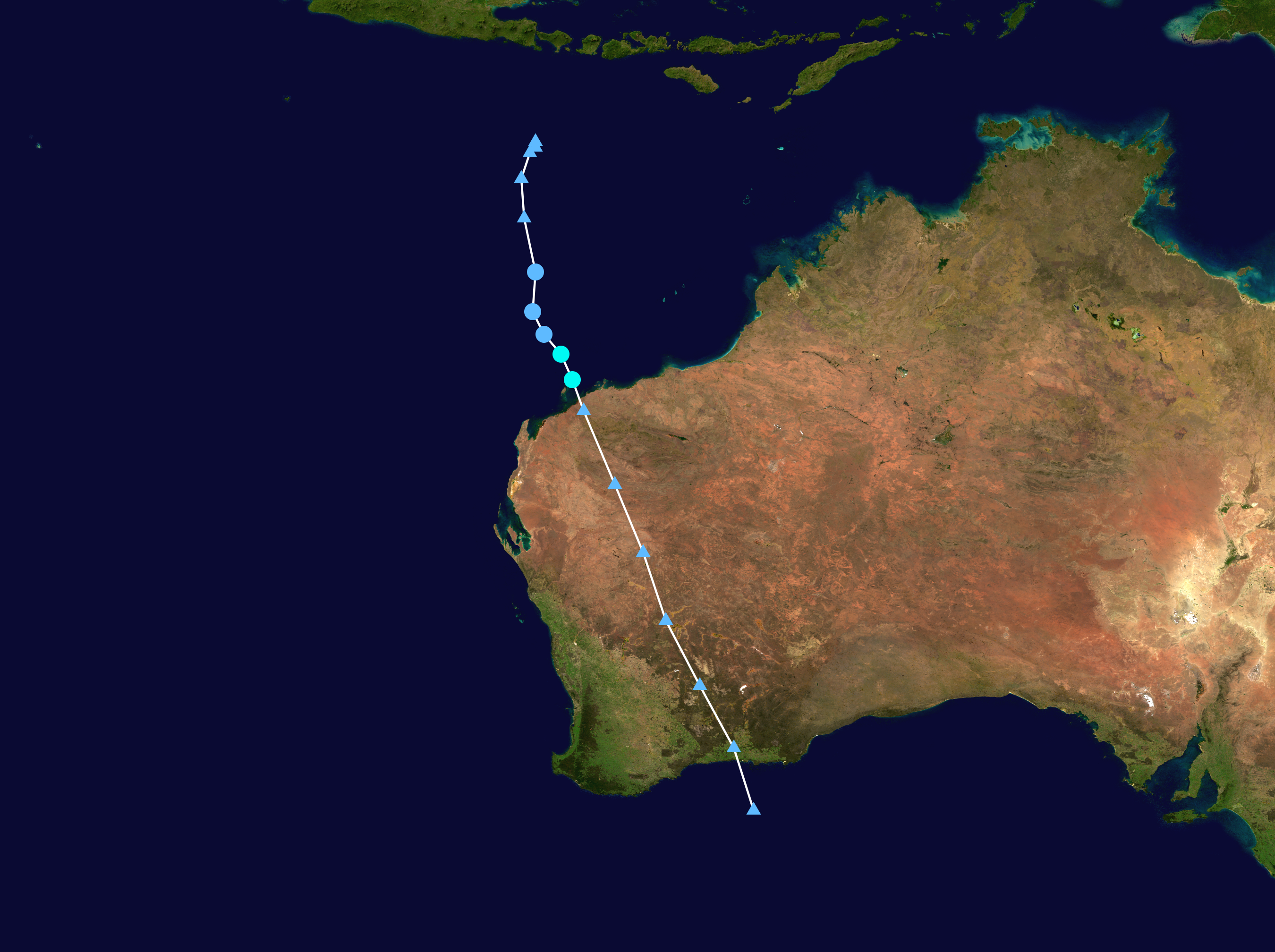 Cyclone Emma (2006) track. Uses the color scheme from the Saffir-Simpson Hurricane Scale.